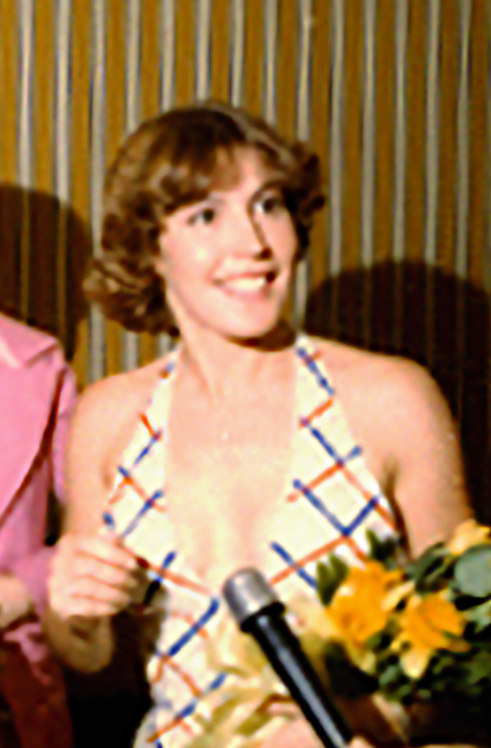 The photo contact sheet, identified as A8995 by the White House Photographic Office (WHPO), is housed at the Gerald R. Ford Presidential Library, a branch of the National Archives and Records Administration (NARA). This file is a 200 dpi photo contact sheet having images from roll of film A8995 of the August 9, 1974 - January 20, 1977 Gerald R. Ford White House Photographic Office Series A0001-A9999 and B0001-B2886 photographs. The date on the photo contact sheet is the date the roll of film was processed, not necessarily the date the photographs were taken. See table below for additional details.